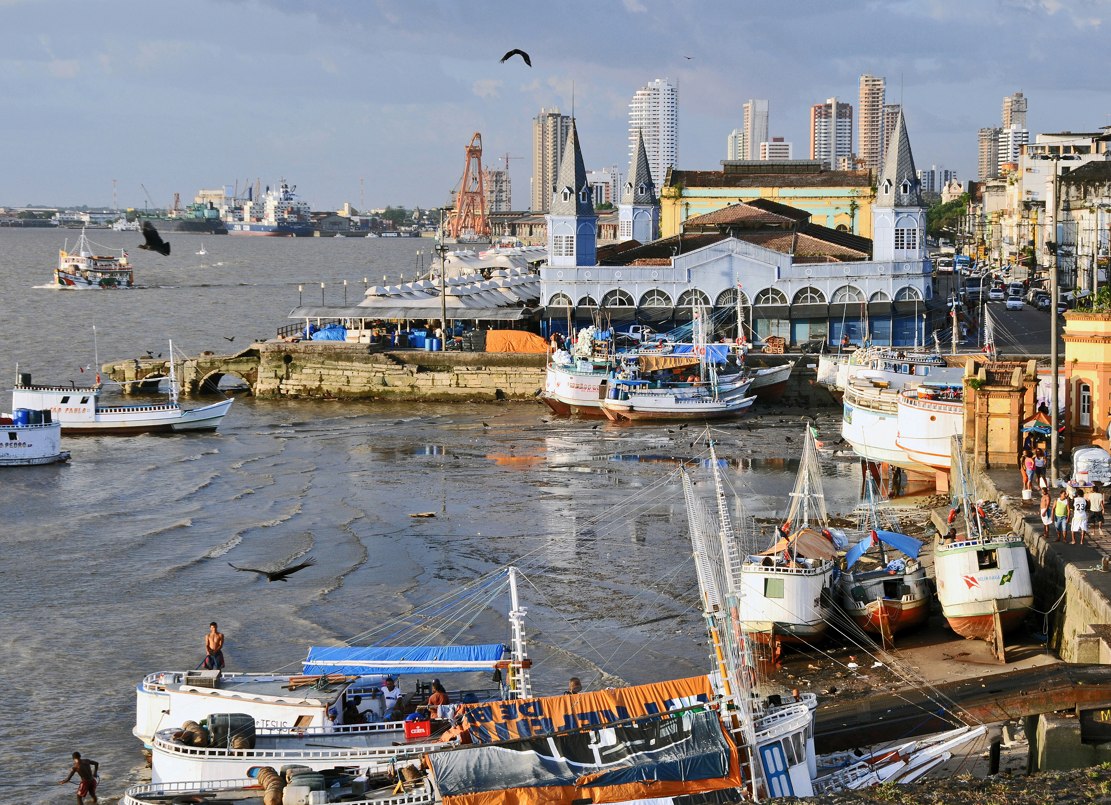 Belém, Brazil: Fishing port at low tide and market-hall Ver-o-Peso seen from Forte do Castelo. Large numbers of black vultures (Coragyps atratus brasiliensis) are seen here feeding on both fish remains and garbage from the nearby market hall